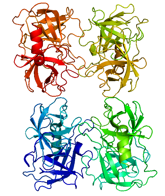 Based on PyMol rendering of PDB 1FUJ